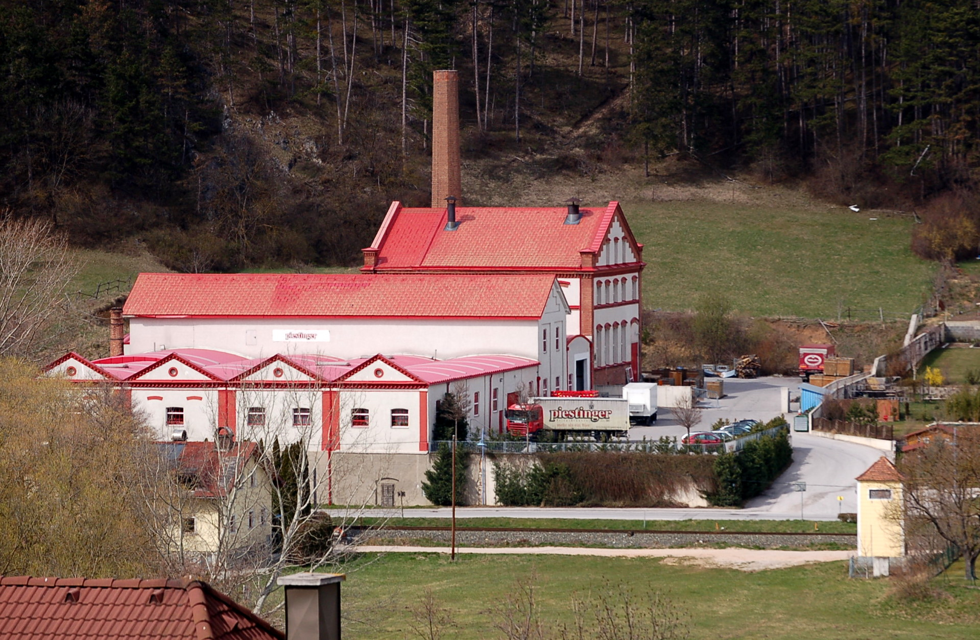 Brewery building in Markt Piesting, Lower Austria